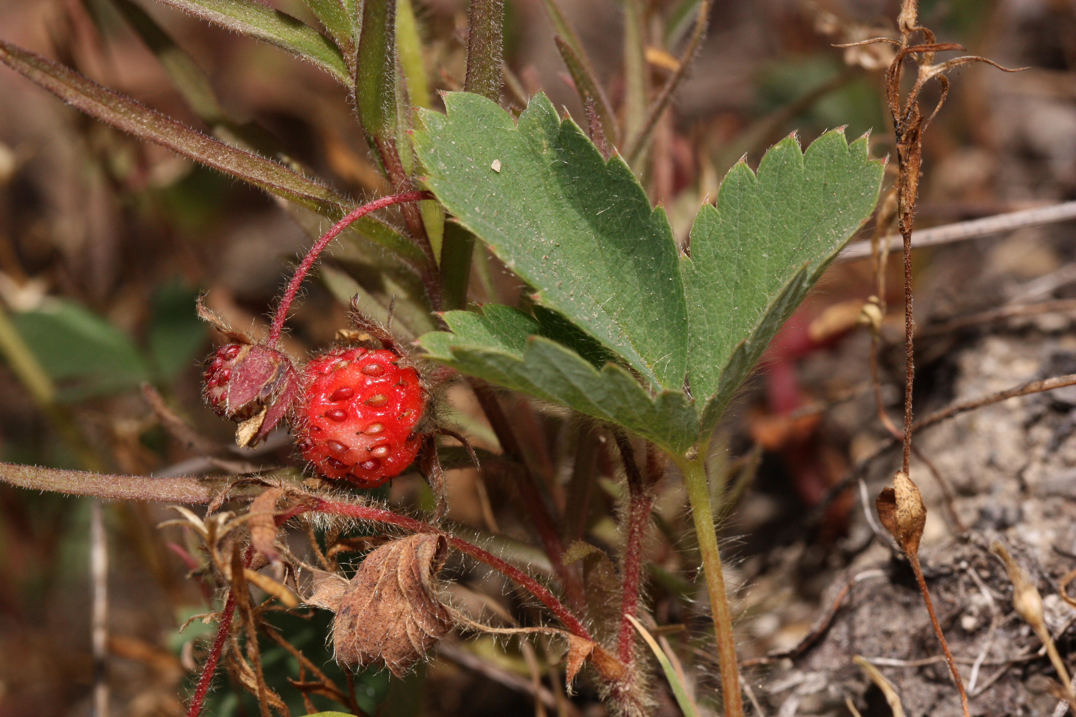 Broadpetal Strawberry Viewpoint location: Juniper Ridge Trail 261 Dark Divide Viewpoint elevation: 1508 meter (4948 ft) Location source: Garmin GPSmap 60CSx Location Datum: WGS84